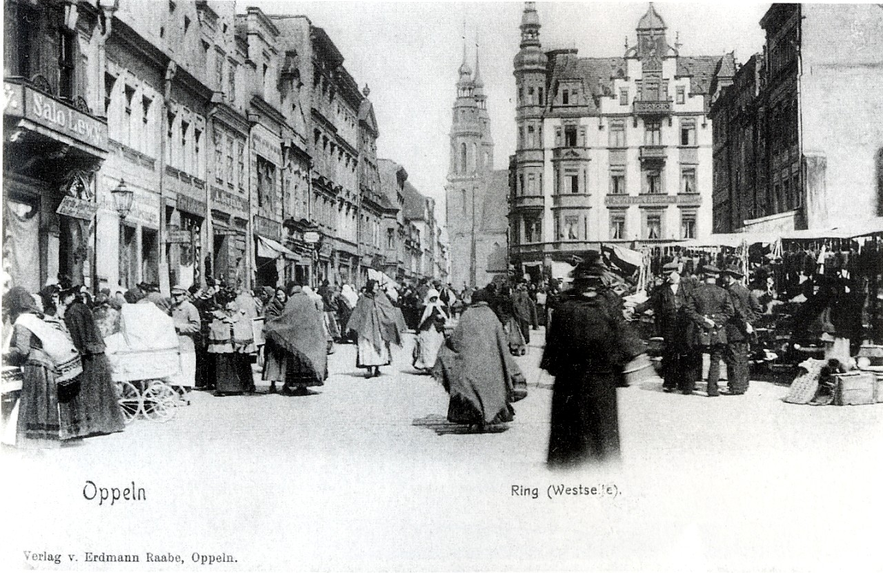 Postcard of the market square in the city of Oppeln/Opole in 1904